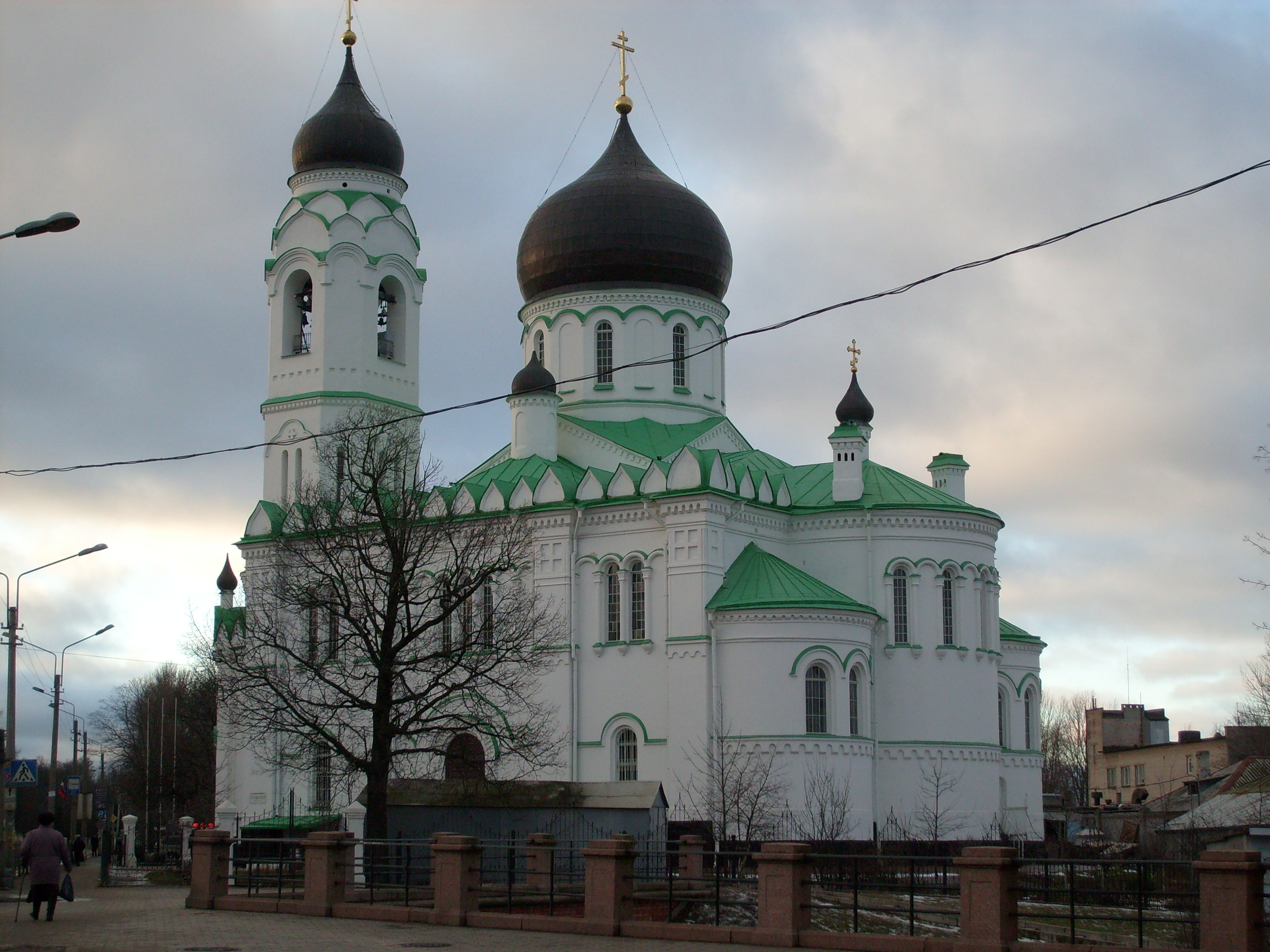 Lomonosov (Russia)